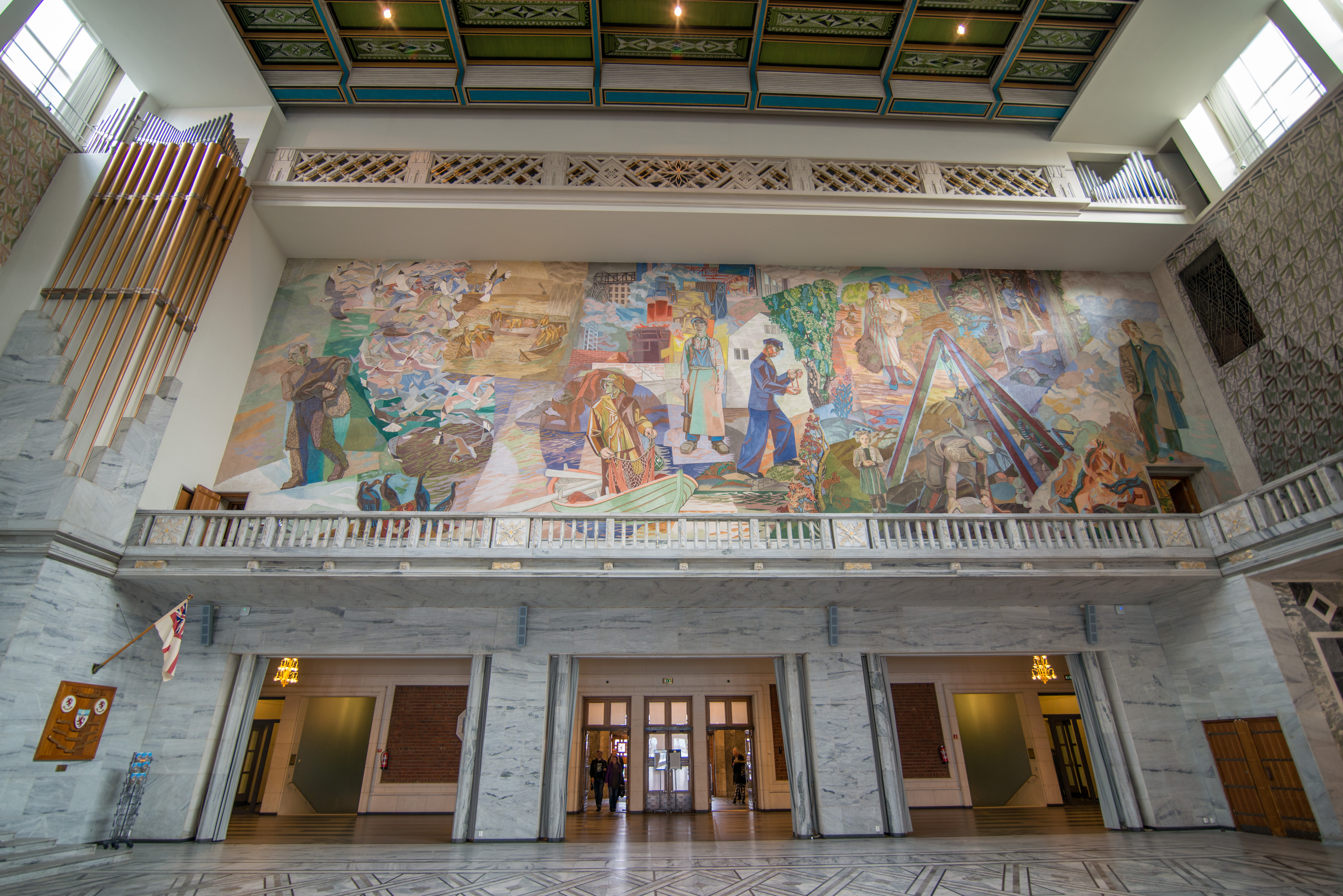 Oslo City Hall (Norwegian: Oslo rådhus) houses the city council, city administration, and art studios and galleries. The construction started in 1931, but was paused by the outbreak of World War II, before the official inauguration in 1950. Its characteristic architecture, artworks and the Nobel Peace Prize ceremony, held on 10 December, makes it one of Oslo's most famous buildings. It was designed by Arnstein Arneberg and Magnus Poulsson. The roof of the eastern tower has a 49-bell carillon which plays every hour. It is situated in Pipervika in central downtown Oslo. The area was completely renovated and rebuilt to make room for the new city hall, back in the late 1920s. In June 2005 it was named Oslo's "Structure of the Century"